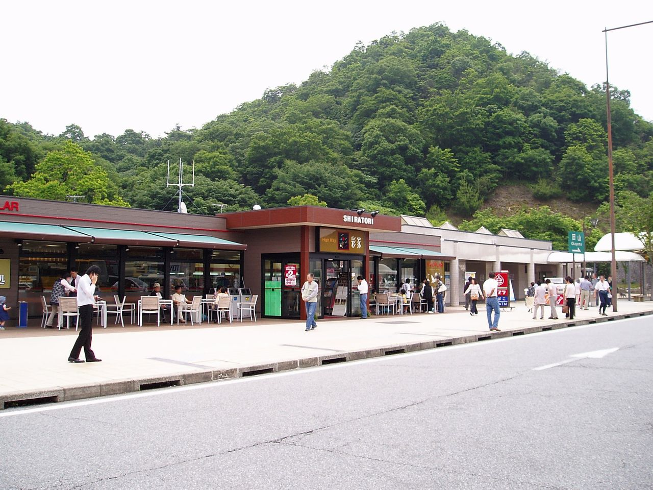 Poplar convenience store at Shiratori Parking Area on the Sanyo Expressway outbound line for Yamaguchi